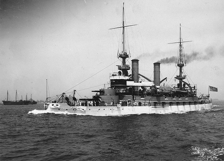 United States battleship Kearsarge. Underway in a harbor during the early 1900s. Kearsarge was painted this way when she visited Europe in 1903, and this photograph may have been taken at about that time. Note the semaphore signalling paddles mounted on her main topmast. U.S. Naval History and Heritage Command Photograph. Removed caption read: Photo # NH 61238 USS Kearsage underway during the early 1900s